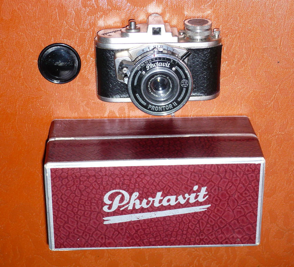 Bolta Photavit camera with box